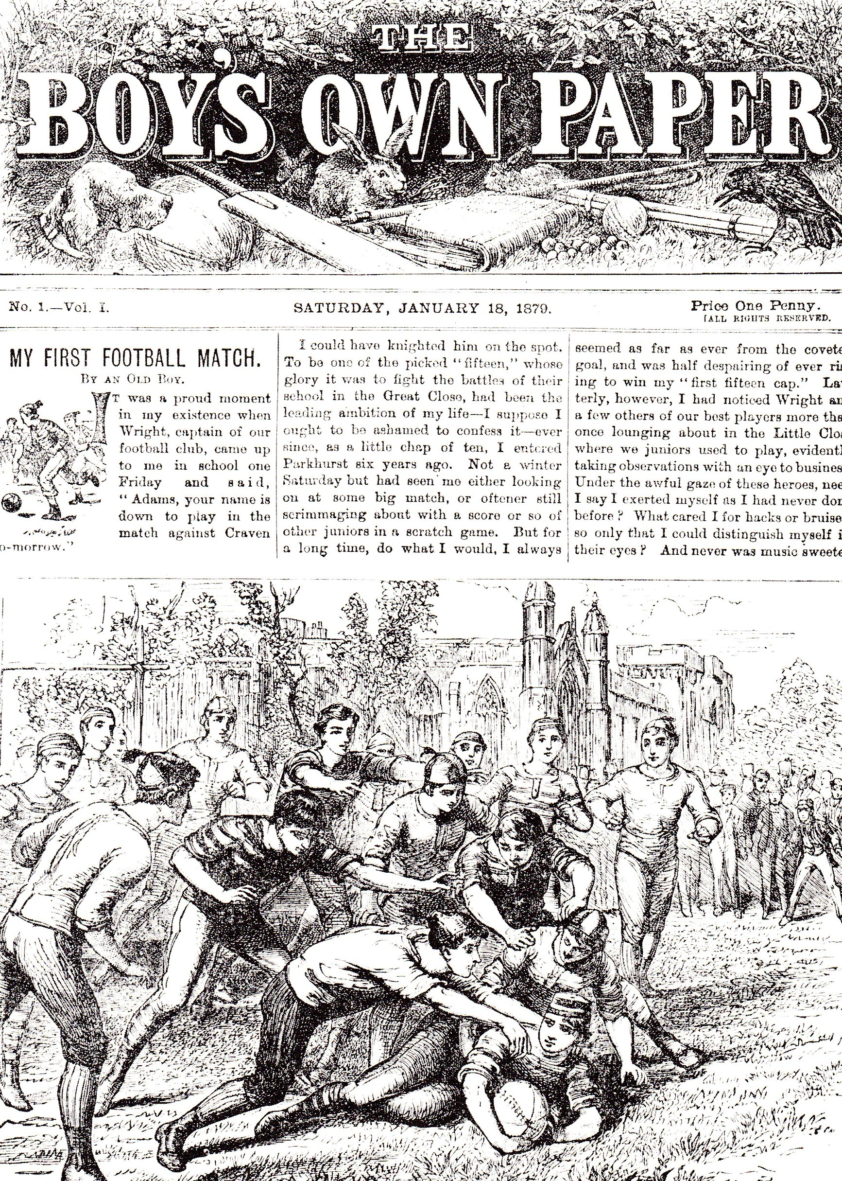 Front page of the first issue of The Boy's Own Paper, dated Saturday January 18, 1879